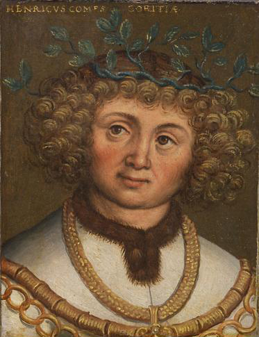 Painting of Heinrich von Görz (d.1454), Count of Gorizia (Görz) (inscription says: Henricus comes)